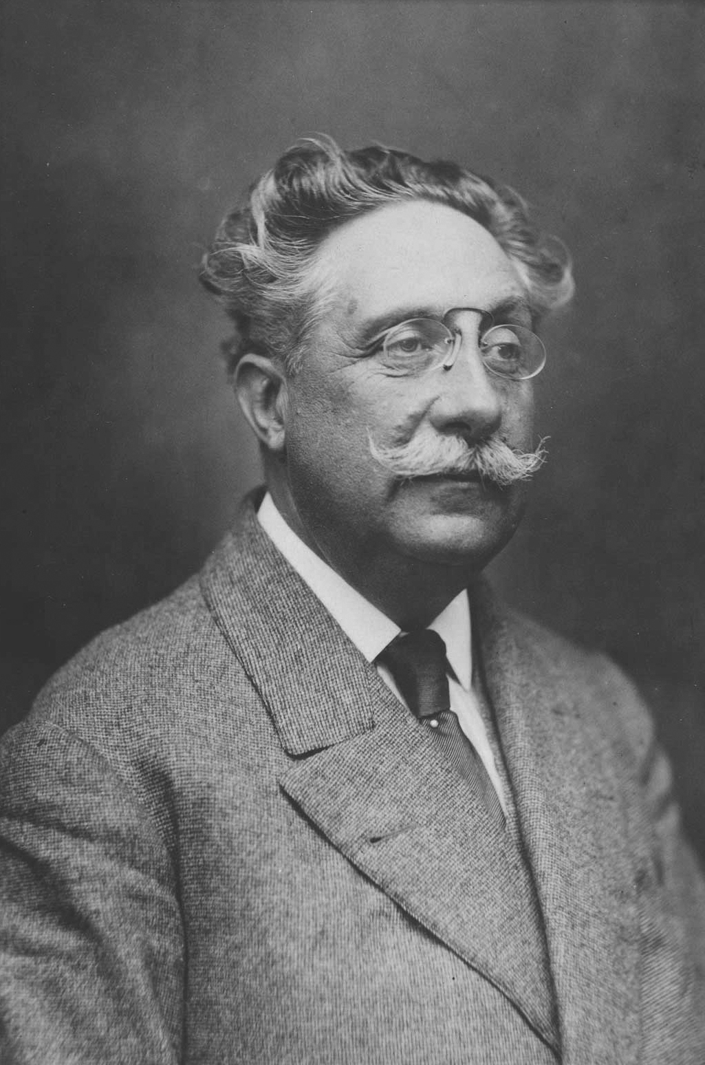 João Vaz portrait